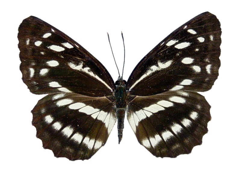 Neptis alwina, Daejeong, South Korea, July 2006.